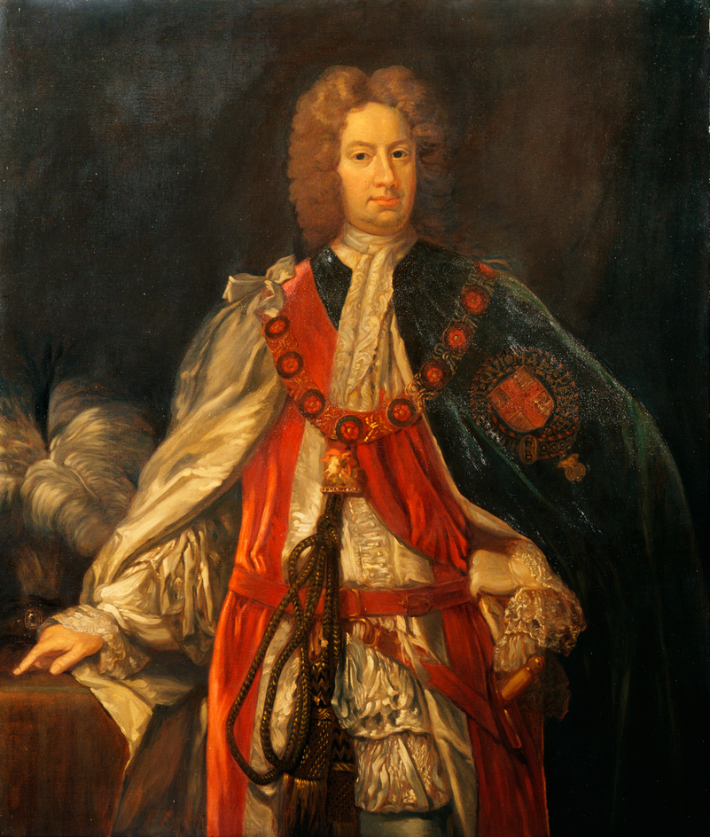 James Graham, 1st Duke of Montrose, Secretary of State for Scotland 1714–16